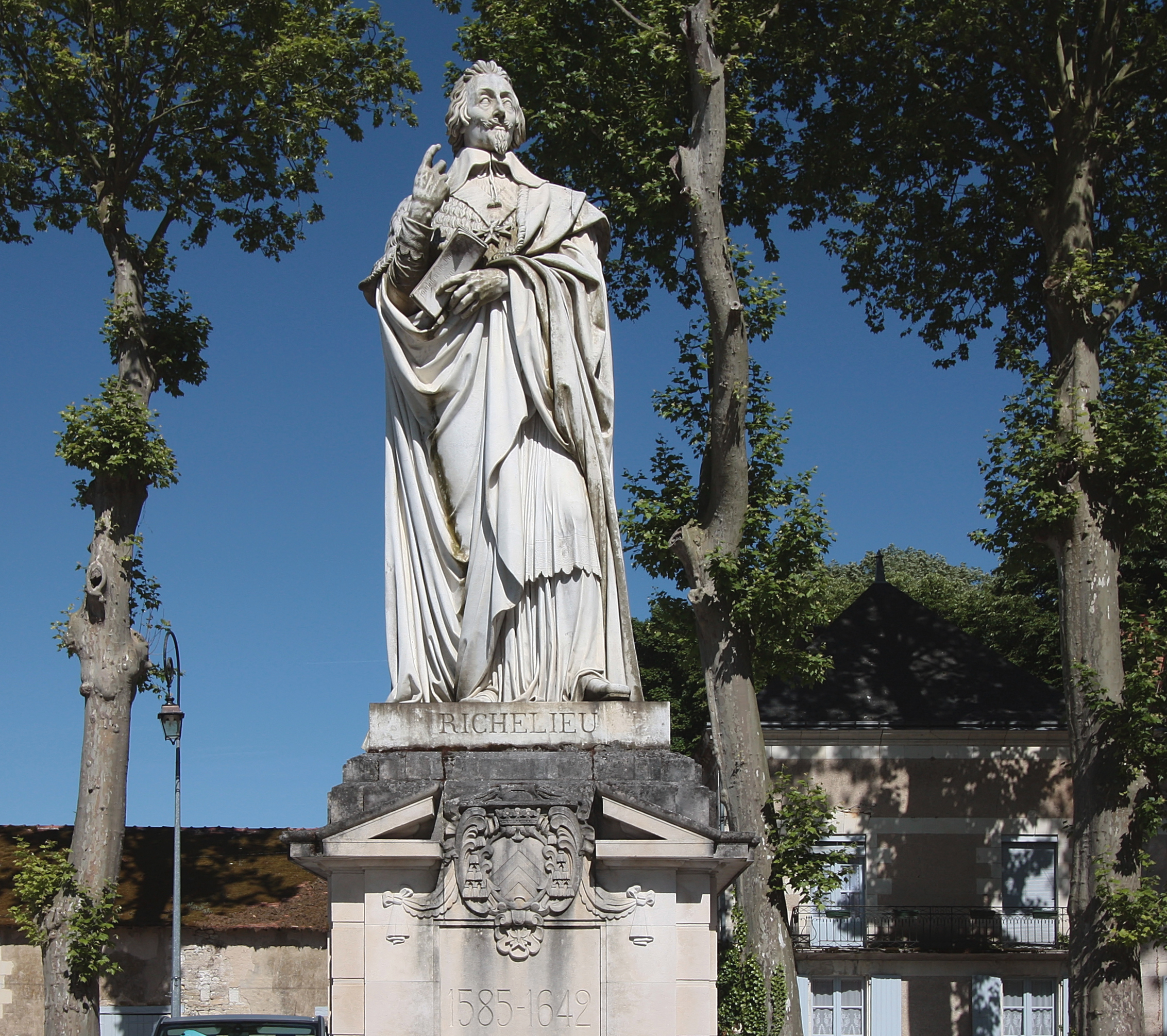 Monument of Richelieu in the town of Richelieu, France